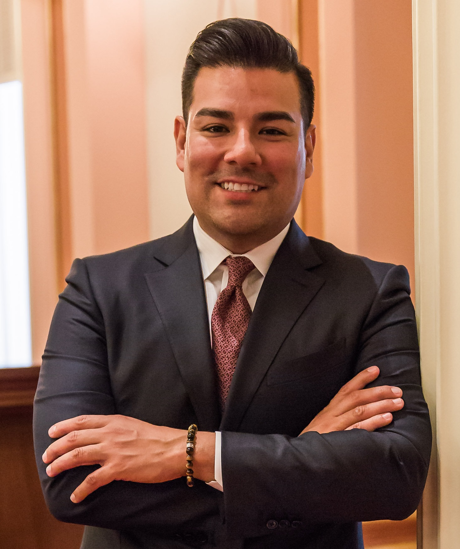 California Senator Ricardo Lara